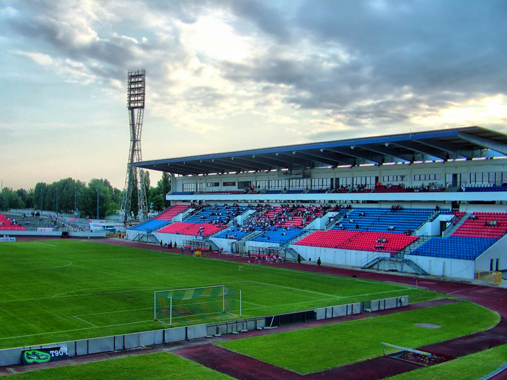 The Stadion Sóstói just before the Fehérvár FC-Vasas match, Székesfehérvár, Hungary